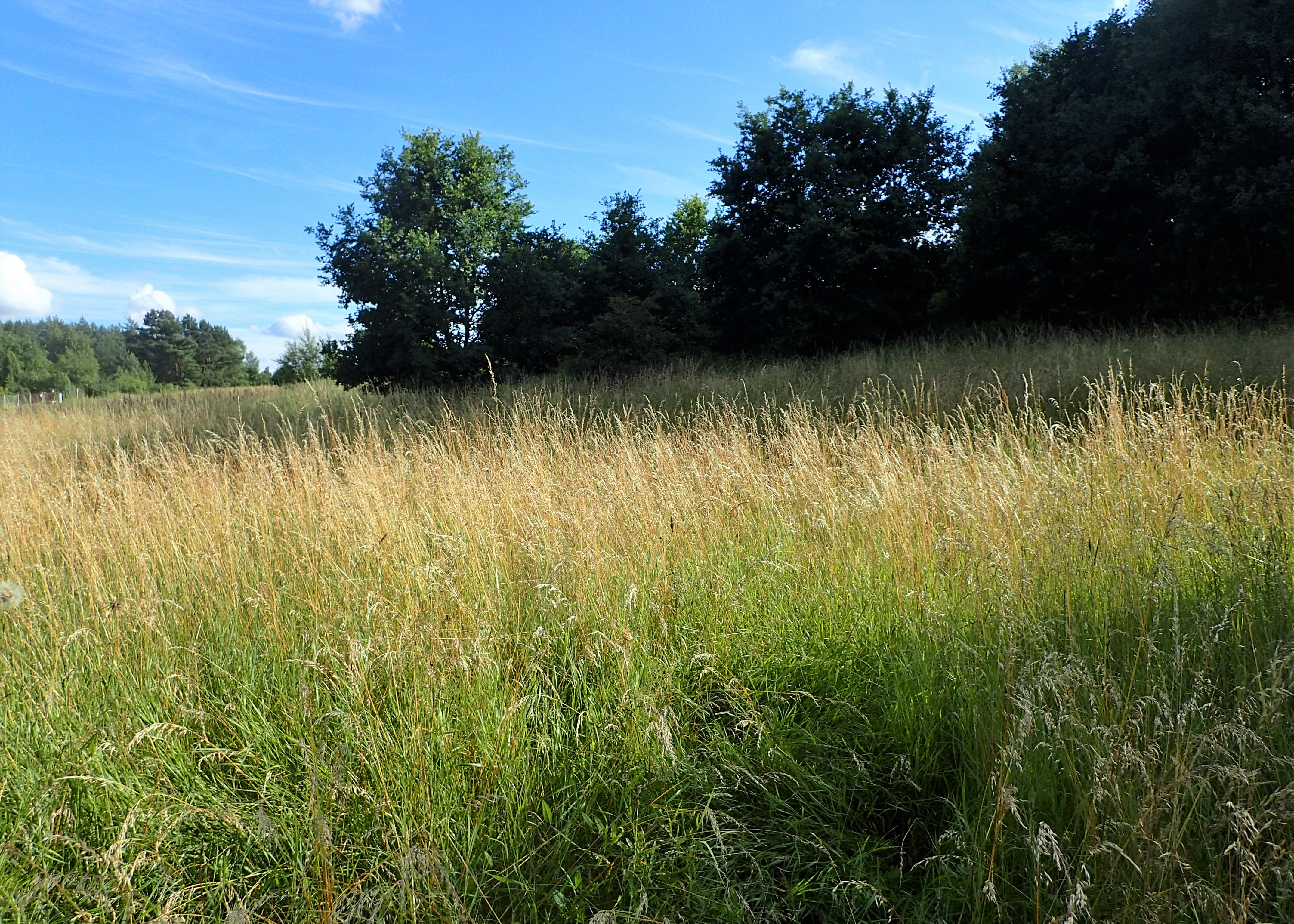 Arrhenatherum elatius (as dominant) in Szczecin Podjuchy, NW Poland